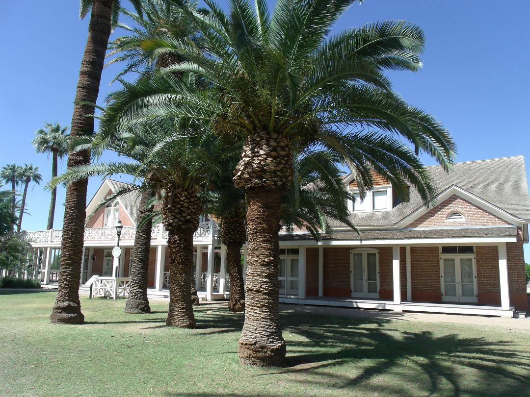 Main Mansion in Saguaro Ranch built in 1886, Glendale, Arizona. Listed in the National Register of Historic Places.